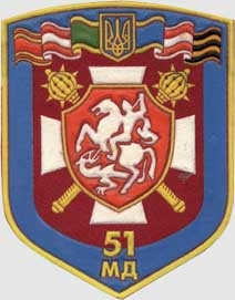 Shoulder sleeve insignia of the Command and Staff of the Ukrainian Army 51st Mechanized Infantry Division